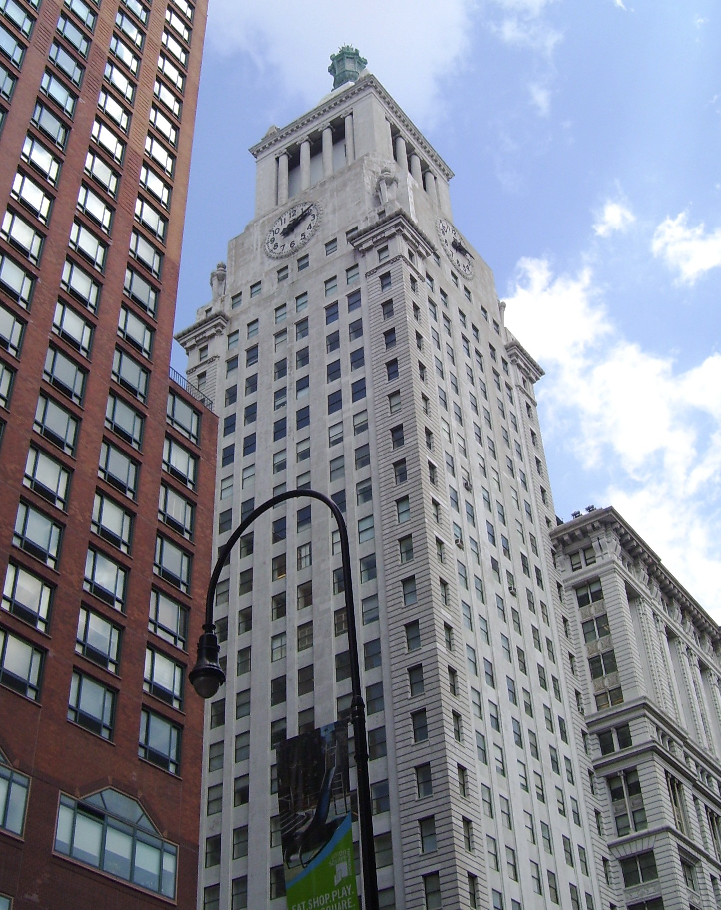 The tower and part of the main building of the Consolidated Edison Company Building (originally the Consolidated Gas Company Building) at 4 Irving Place at East 14th Street in Manhattan, New York City, as seen from 14th Street between Fourth Avenue and Irving Place, with part of the Zeckendorf Towers in the foreground.The building was erected in 1915 (architect: Henry J. Hardenbergh) on the site of the Academy of Music, New York's third opera house. (The name then went to a movie house across the street, which later became The Palladium, and then was torn down for a New York University dormitory.) The tower, with its landmark clock, was added in 1926 (architect: Warren & Wetmore). It is topped by the "Tower of Light".